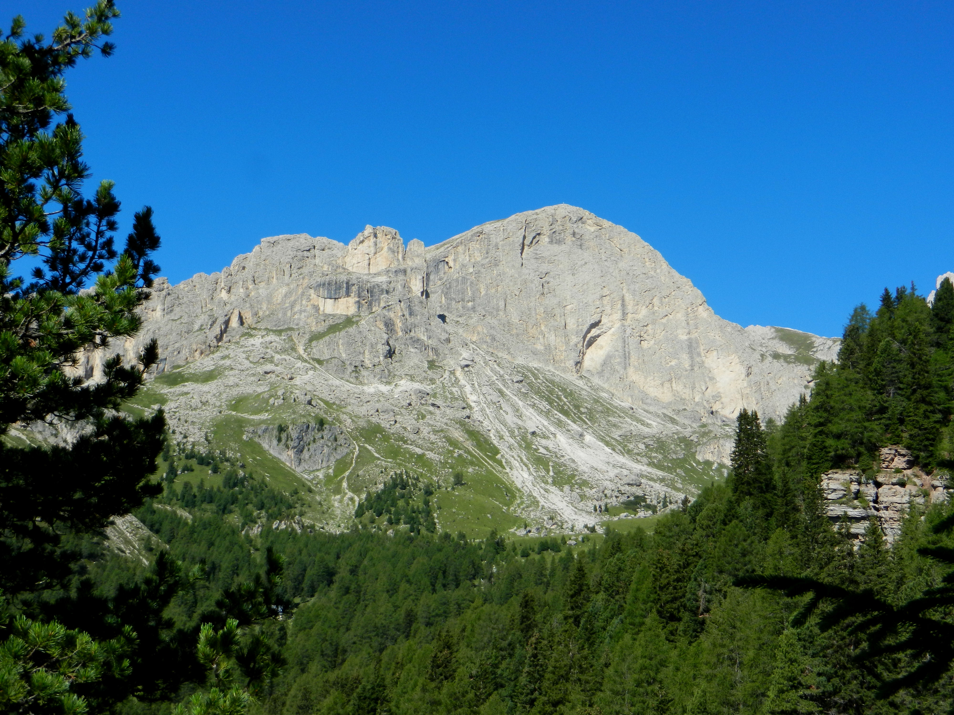 Dolomites, Rosengarten group, Mount Roda di Vael